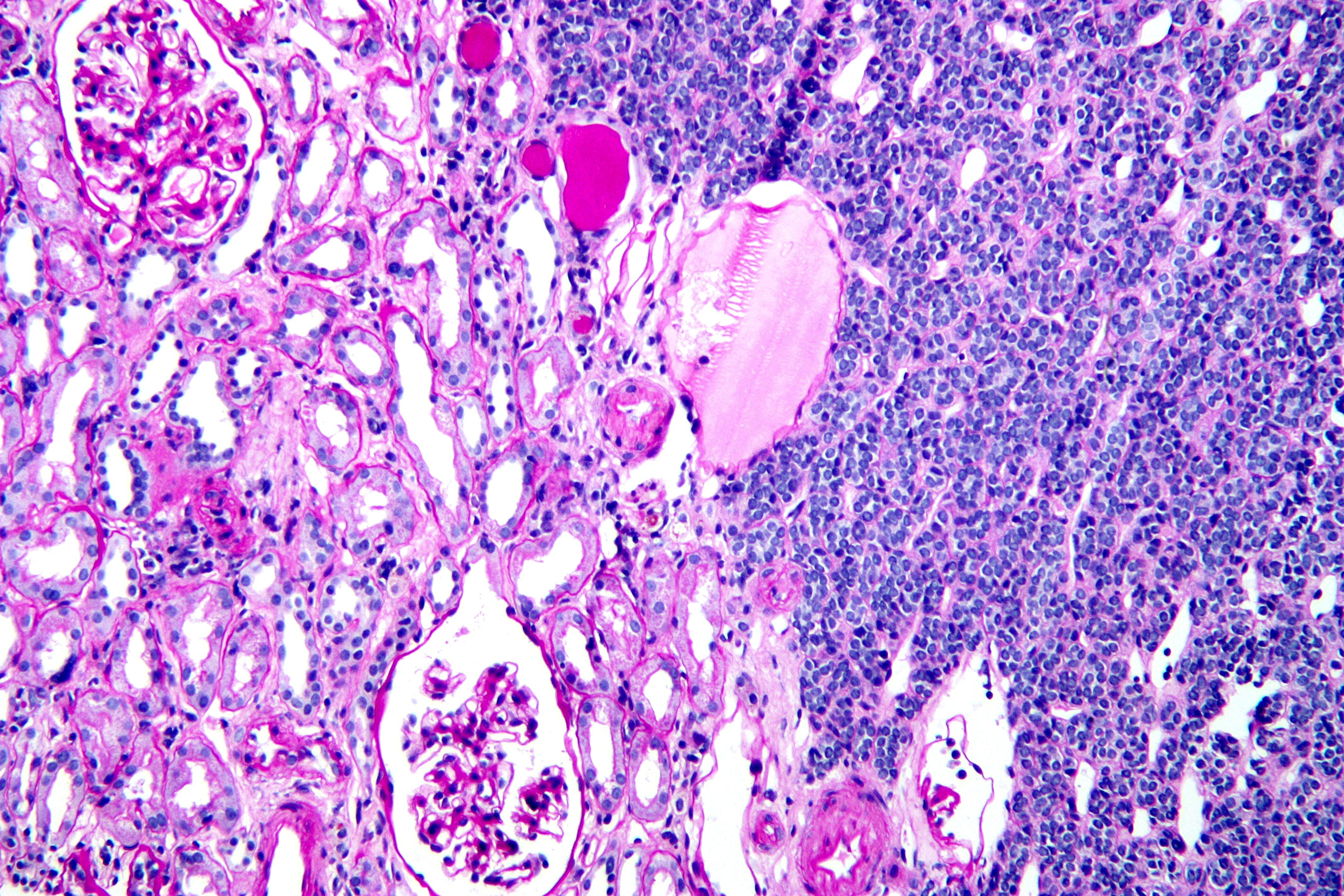 Micrograph of a metanephric adenoma, a rare benign tumour of the kidney. PAS stain. Metanephric adenomas consist of: Small uniform cells, which have a relatively smooth nuclear membrane, fine chromatin, and no apparent nucleolus. Two normal glomeruli can be identified in the non-tumour portion on the left of the image. The most important differential diagnosis is nephroblastoma (Wilms tumour); these typically have frequent mitoses, an irregular nuclear membrane and prominent nucleoli. Related images High mag. High mag. (cropped)